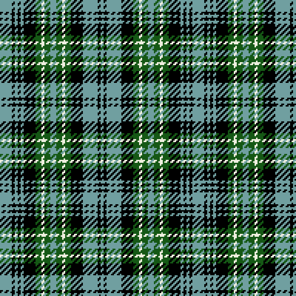 Arbuthnott tartan. The tartan was registered with Lord Lyon in 1962 with the thread count: B2 K2 B10 K8 G4 W2 G4 B4 G4 W2 G4 K8 B2 K2 B2 K2 B8. Source